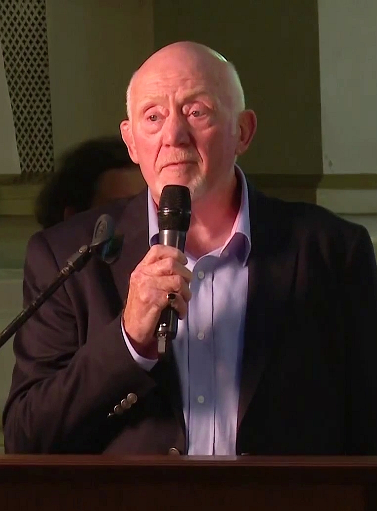 Welsh rugby union coach, currently in charge of the Romanian national team, Lynn Howells, is seen during a press conference in September 2015 shortly before departing for the 2015 Rugby World Cup